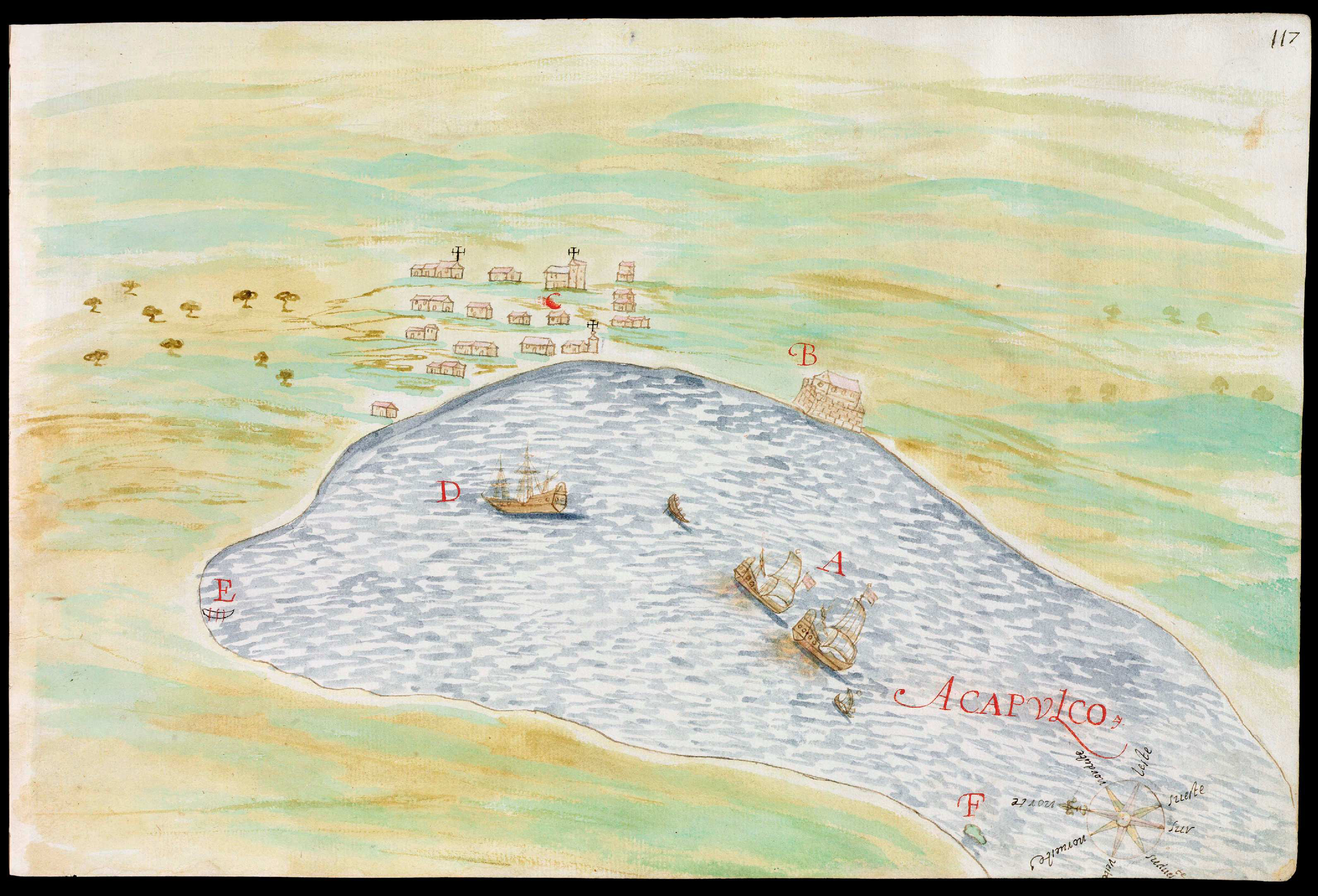 Bay and city of Acapulco in Mexico, in a Spanish map of 1632. Page 117 of the Descripciones geográphicas e hydrográphicas de muchas tierras y mares del Norte y Sur en las Indias, en especial del descubrimiento del Reino de la California (Geographic and hydrographic descriptions of many northern and southern lands and seas in the Indies, specifically the discovery of the kingdom of California), written by captain Nicolás de Cardona after his expedition of 1614. On page 116 the legend reads: A. The ships of the expedition. B. The castle of San Diego. C. The town. D. A ship that has come from Japan. E. Los Manzanillos. F. El Grifo.